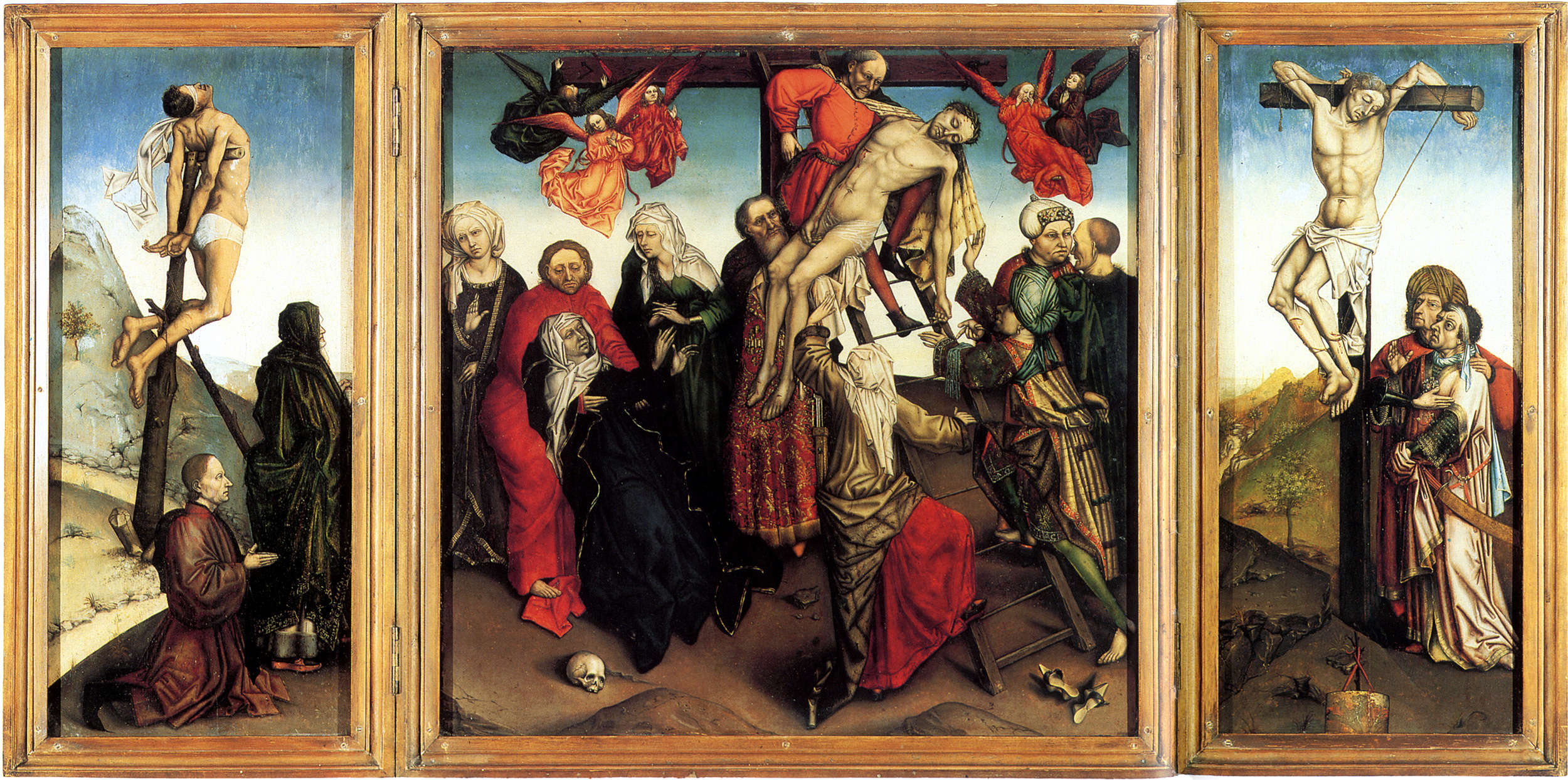 Copy after a disappeared tryptich of Robert Campin